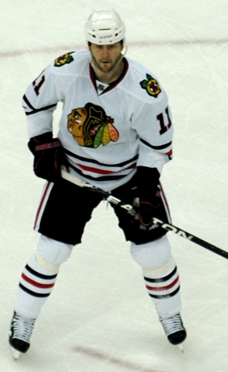 John Madden plays with Blackhawks in New Jersey